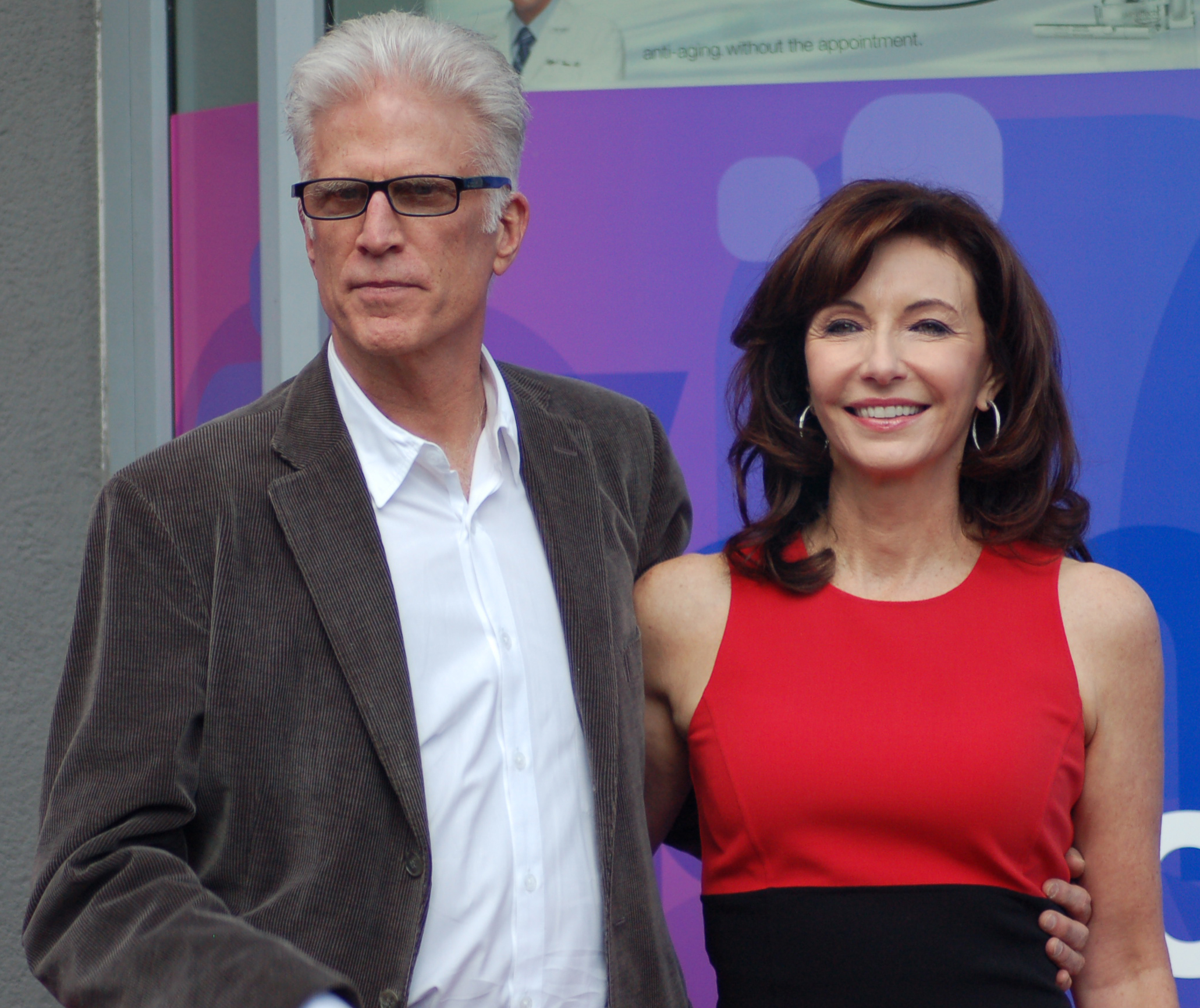 Ted Danson and Mary Steenburgen at a ceremony for Steenburgen to receive a star on the Hollywood Walk of Fame.